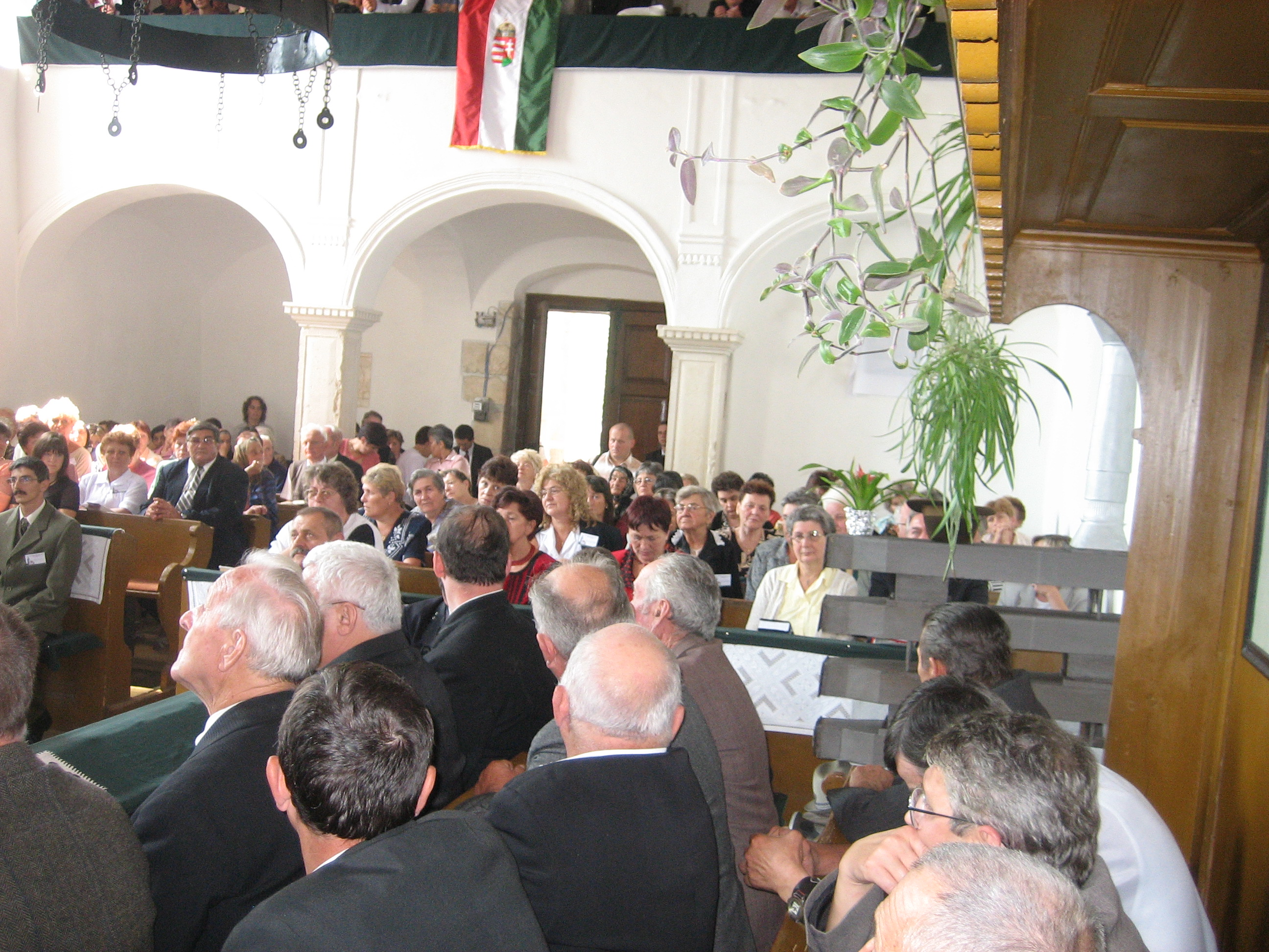 Mass in the church. (Reformed church, Aranyosgerend/Luncani)